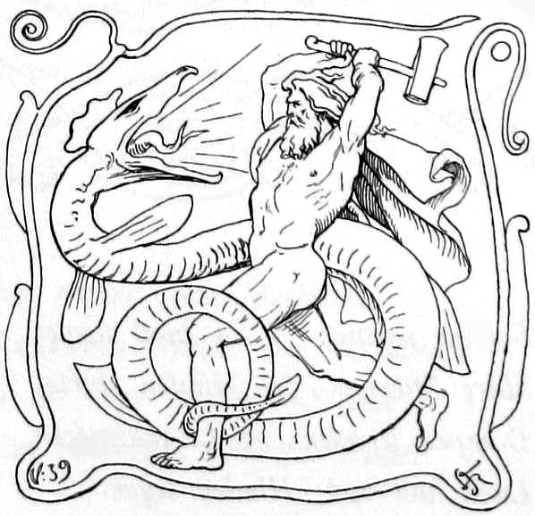 The final battle between Thor and Jörmungandr during Ragnarök.